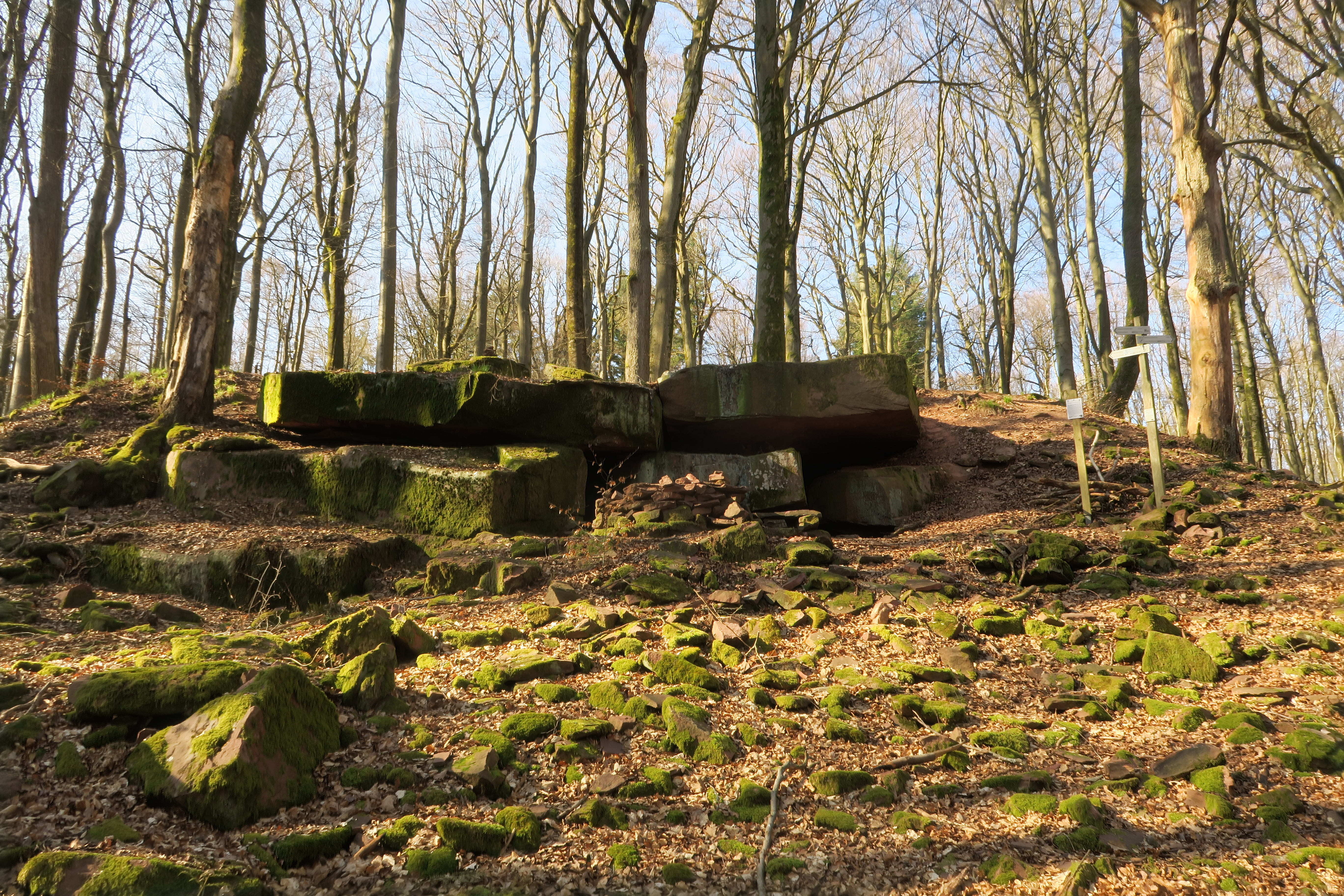 Stone House 3